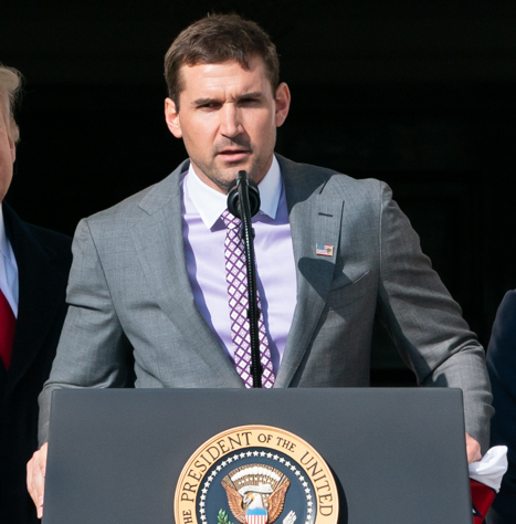 Nationals first baseman Ryan Zimmerman delivers remarks from the Blue Room Balcony of the White House as President Donald J. Trump, First Lady Melania Trump, Nationals manager Dave Martinez and Nationals General Manager Mike Rizzo look on Monday, Nov. 4, 2019, during the celebration of the 2019 World Series Champions, the Washington Nationals on the South Lawn. (Official White House Photo by Andrea Hanks)